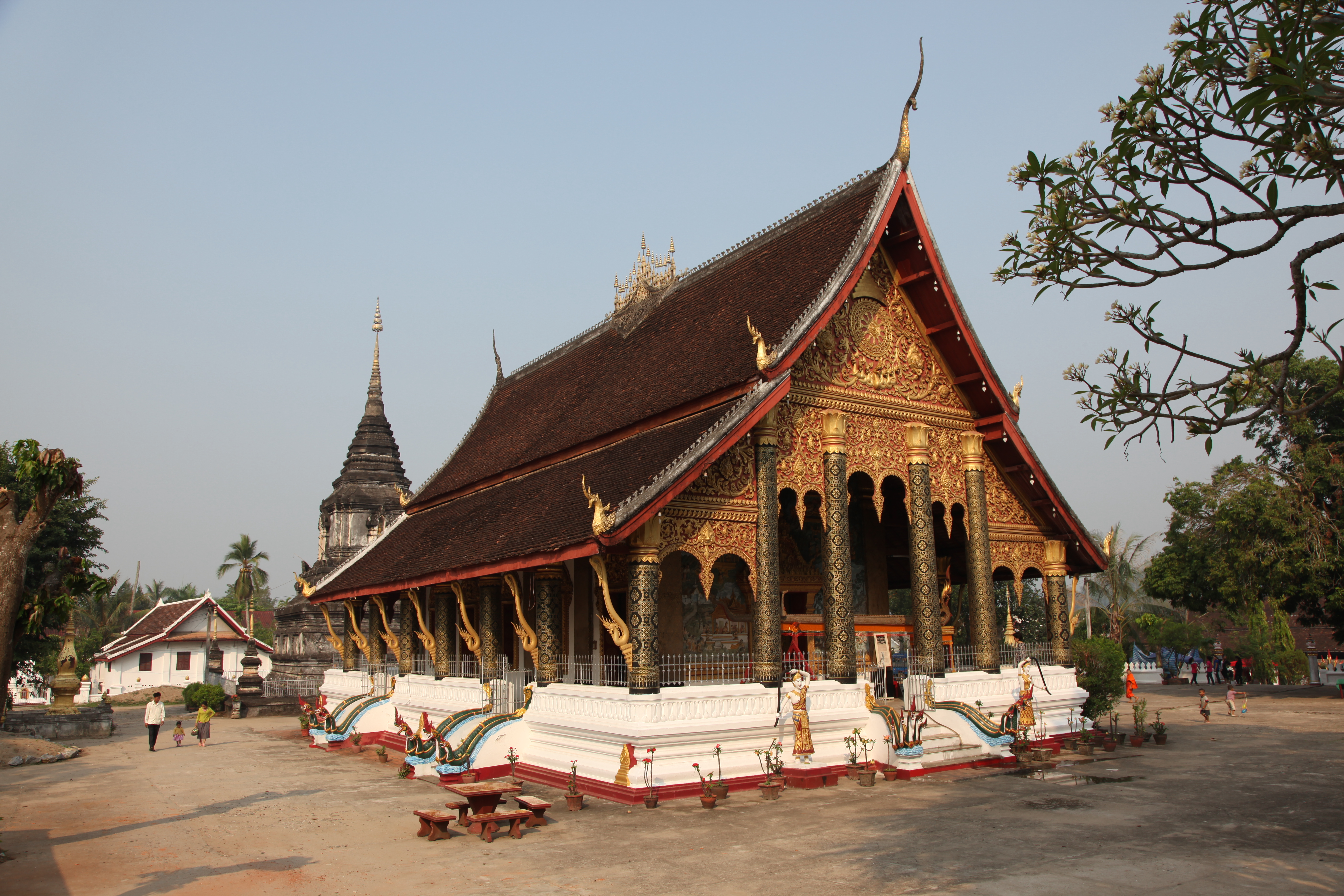 Wat Mahathat - Sim with the stupa behind